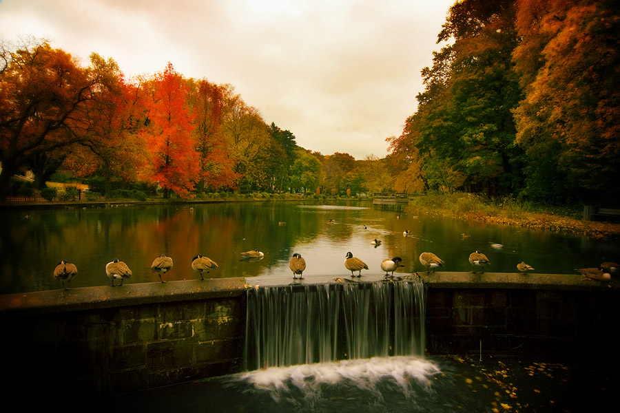 Baxter Pond in Baxter Estates, an incorporated village within Port Washington, N.Y., in November 2007. Photo by J Wright Design - Photo may only be used for online purposes with credit to both author and website. The photographer would greatly appreciate being notified of any further use.